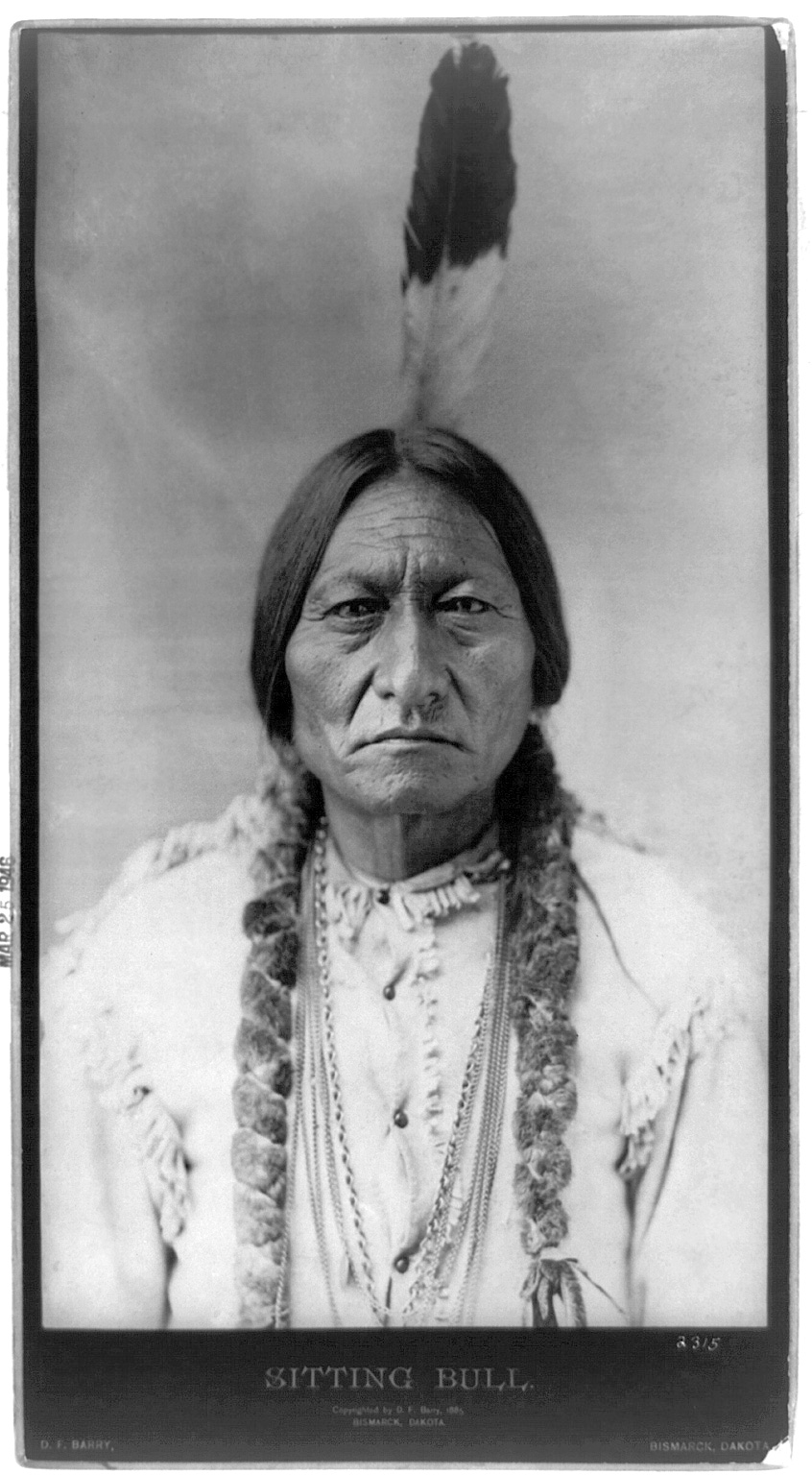 Sitting Bull (c. 1831-1890). Sitting Bull was a Lakota chief and holy man, famous for his 1876 victory over Custer at the Battle of the Little Bighorn. He also participated in Buffalo Bill's Wild West show (Photograph by D. F. Barry, 1885).